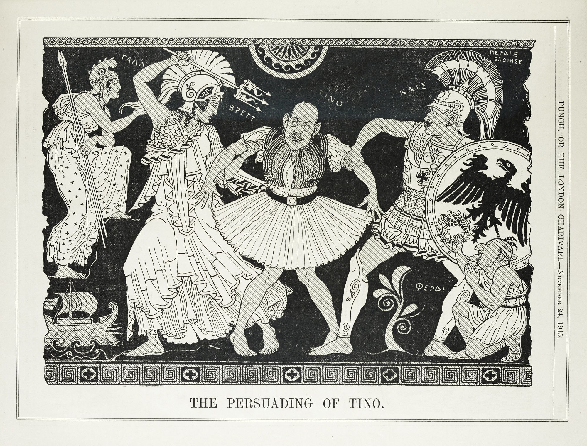 Satirical cartoon by Punch (November 24, 1915, p. 431) showing King Constantine I of Greece ("TINO") being torn between the personifications of Britain (BPETT) and France (ΓΑΛΛ) on the left and Kaiser Wilhelm II of Germany (ΚΑΙΣ), assisted by Ferdinand I of Bulgaria (ΦΕΡΔΙ), on the right, in the style of an ancient Greek vase. John Partridge signed this with the Greek translation of his surname, ΠΕΡΔΙΞ ΕΠΟΙΗΣΕ ("Partridge Did This")